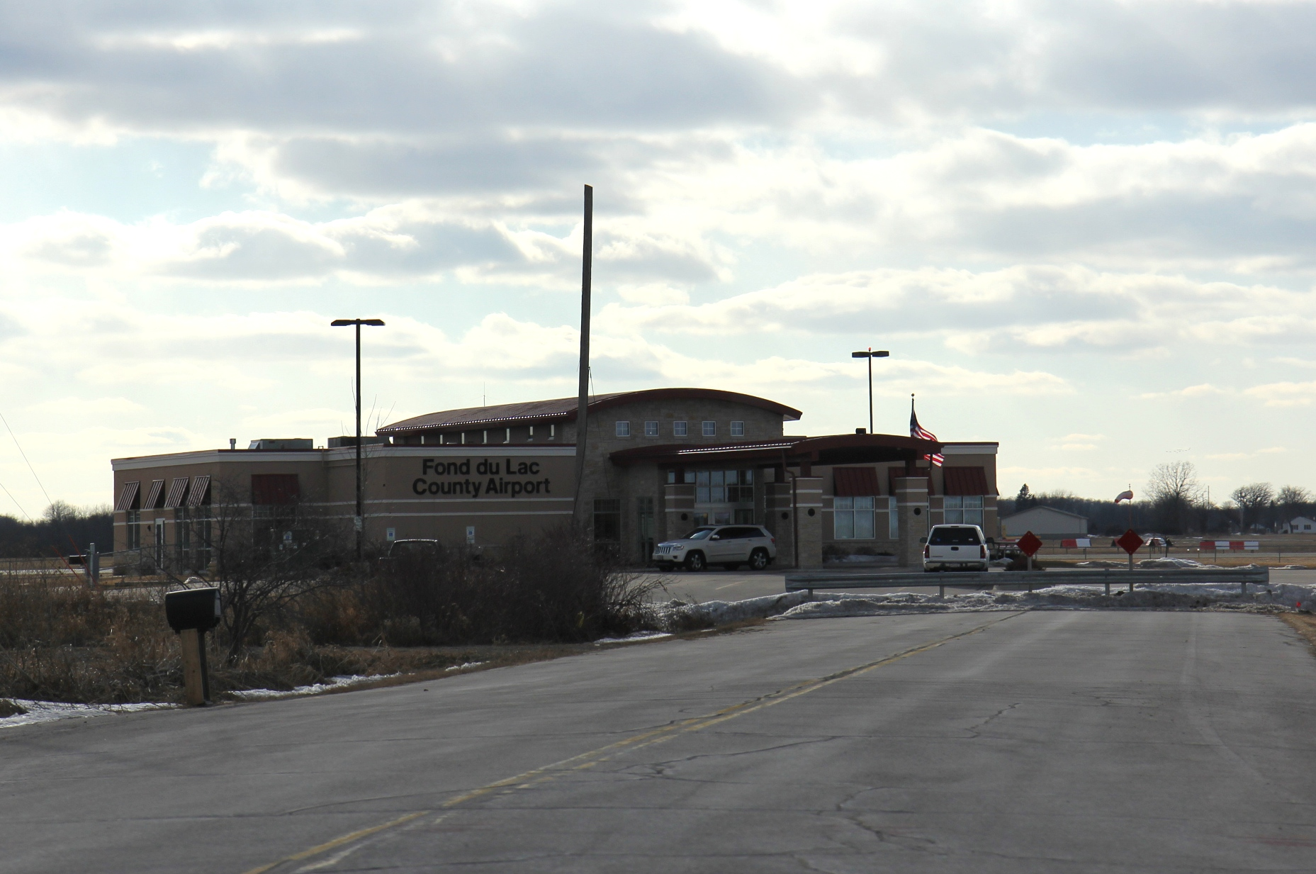 The airport hangar for the Fond du Lac County (Wisconsin) Airport.